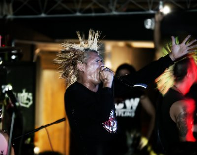 Shot by John Kloepper, El Paso TX 2006